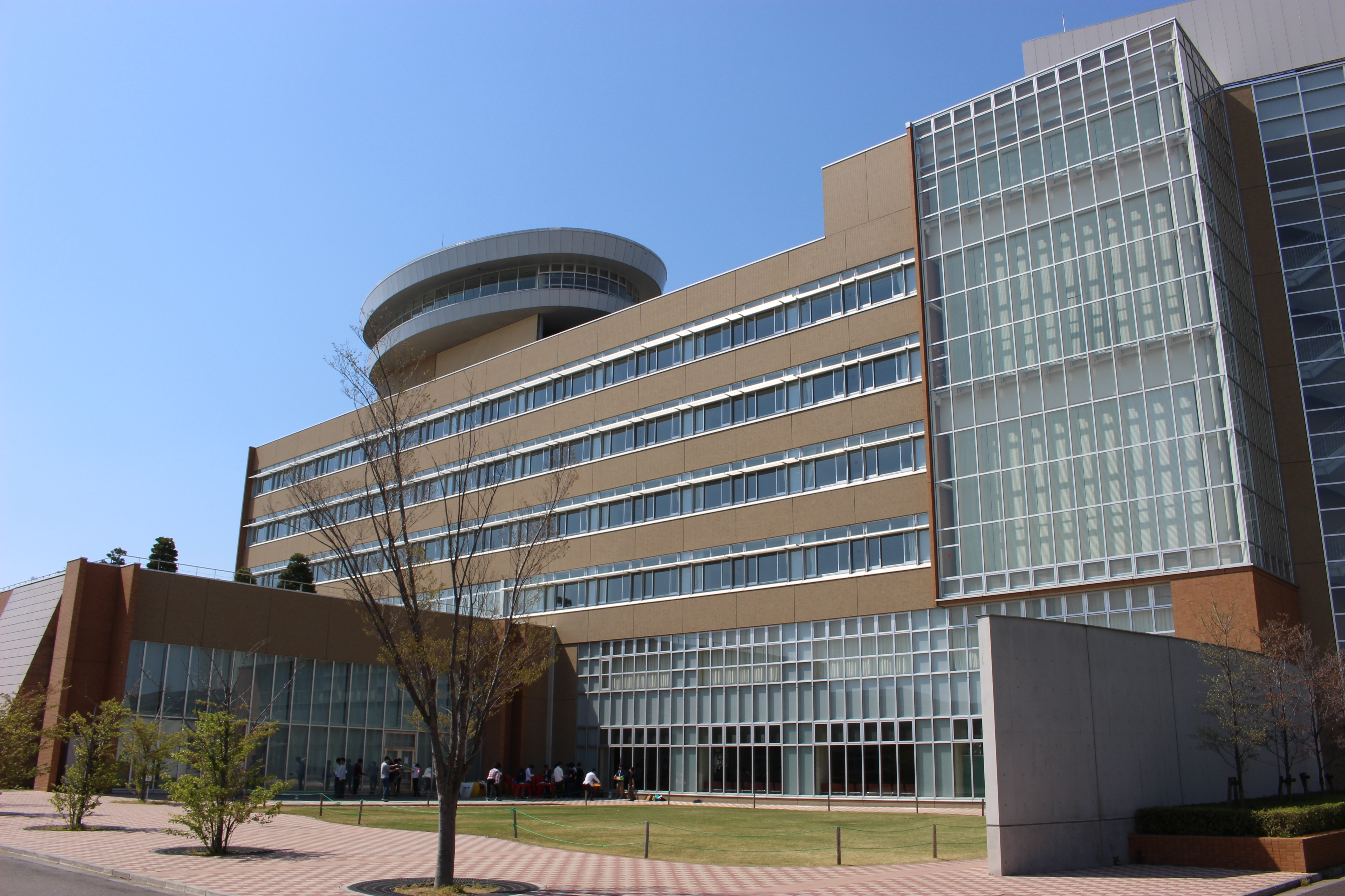 日本大学工学部70号館（郡山市）